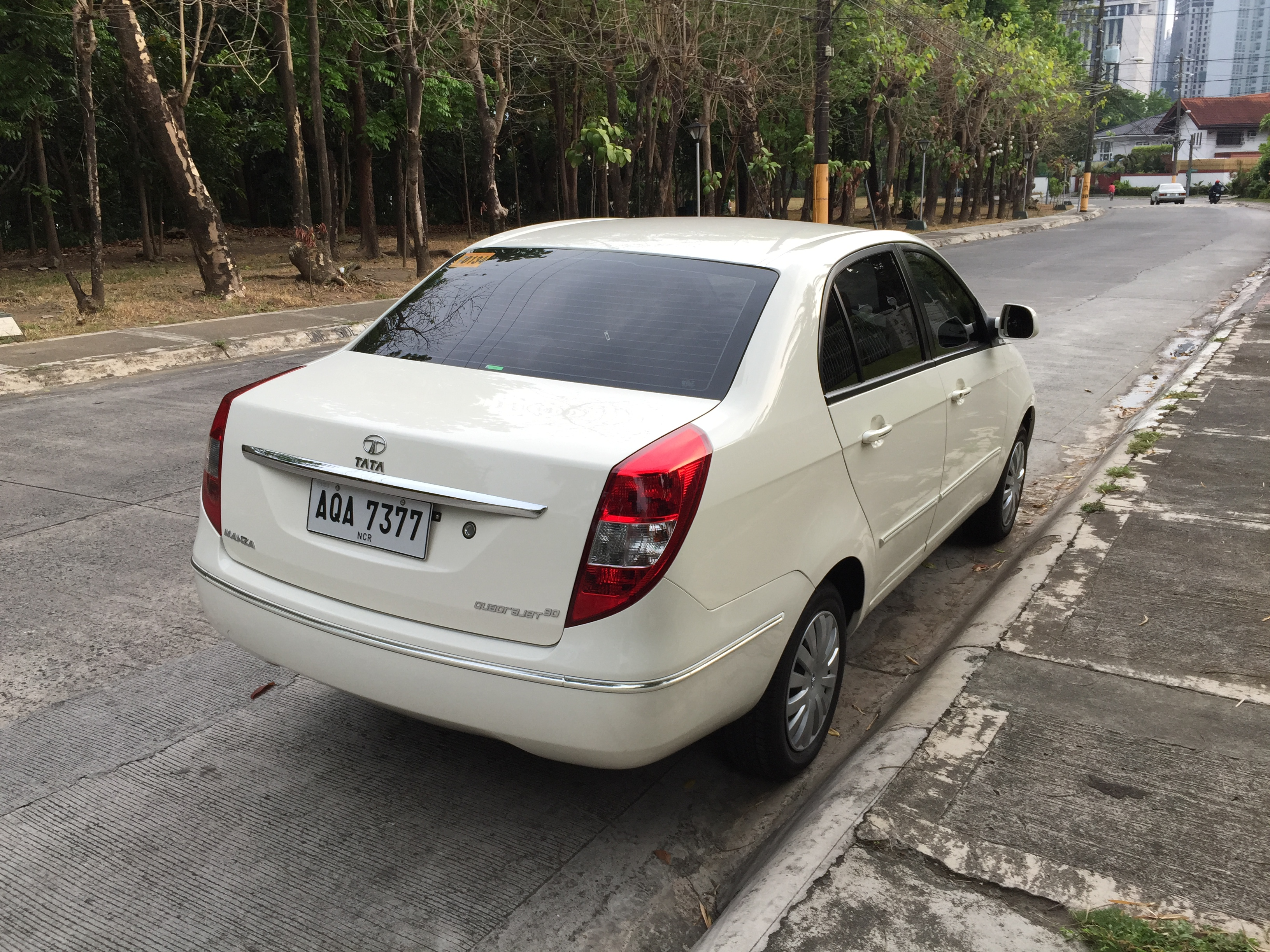 A Tata Manza in Porcelain White in Quezon City as a LHD vehicle.